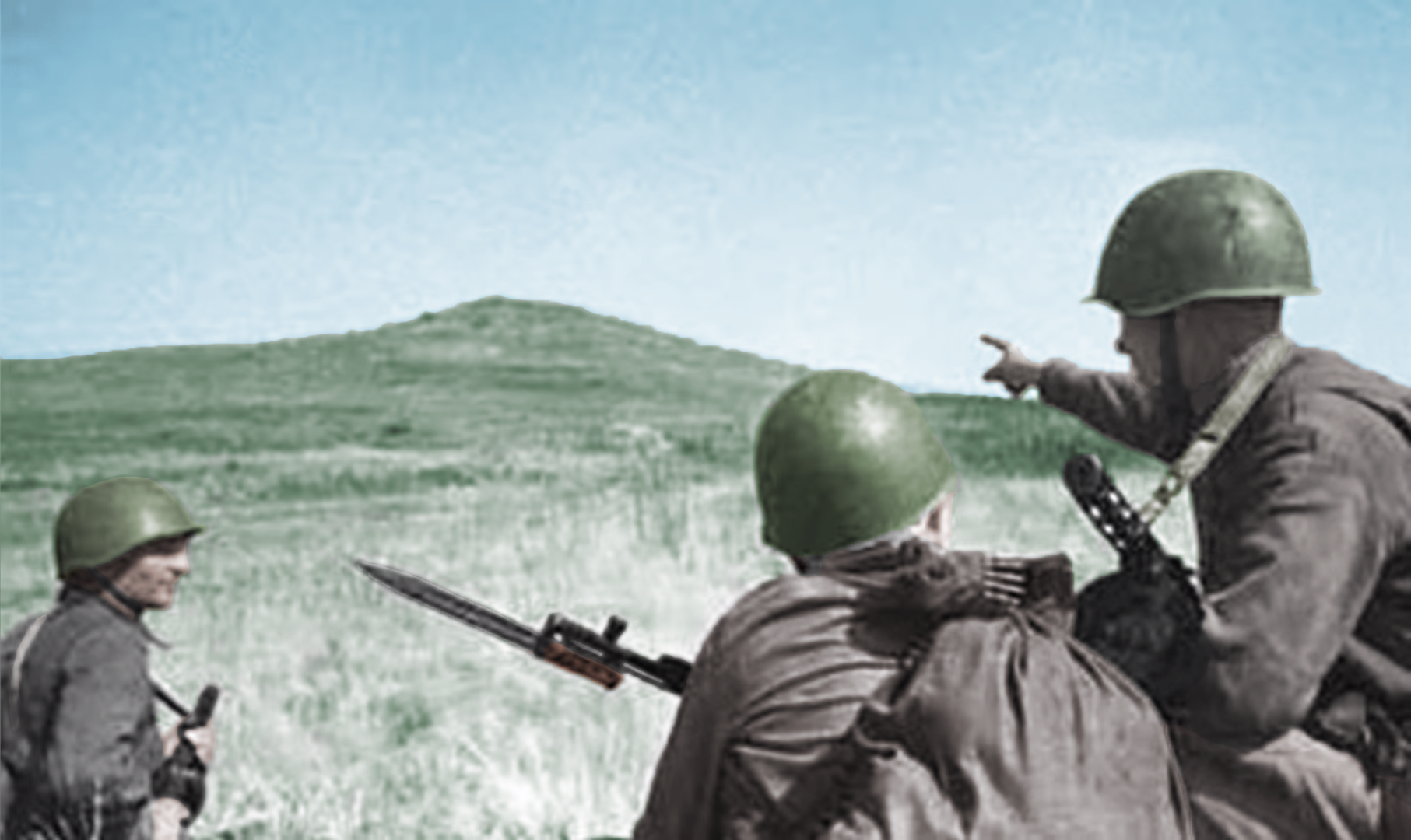 Red Army soldiers near Saur-Mogila during World War 2.